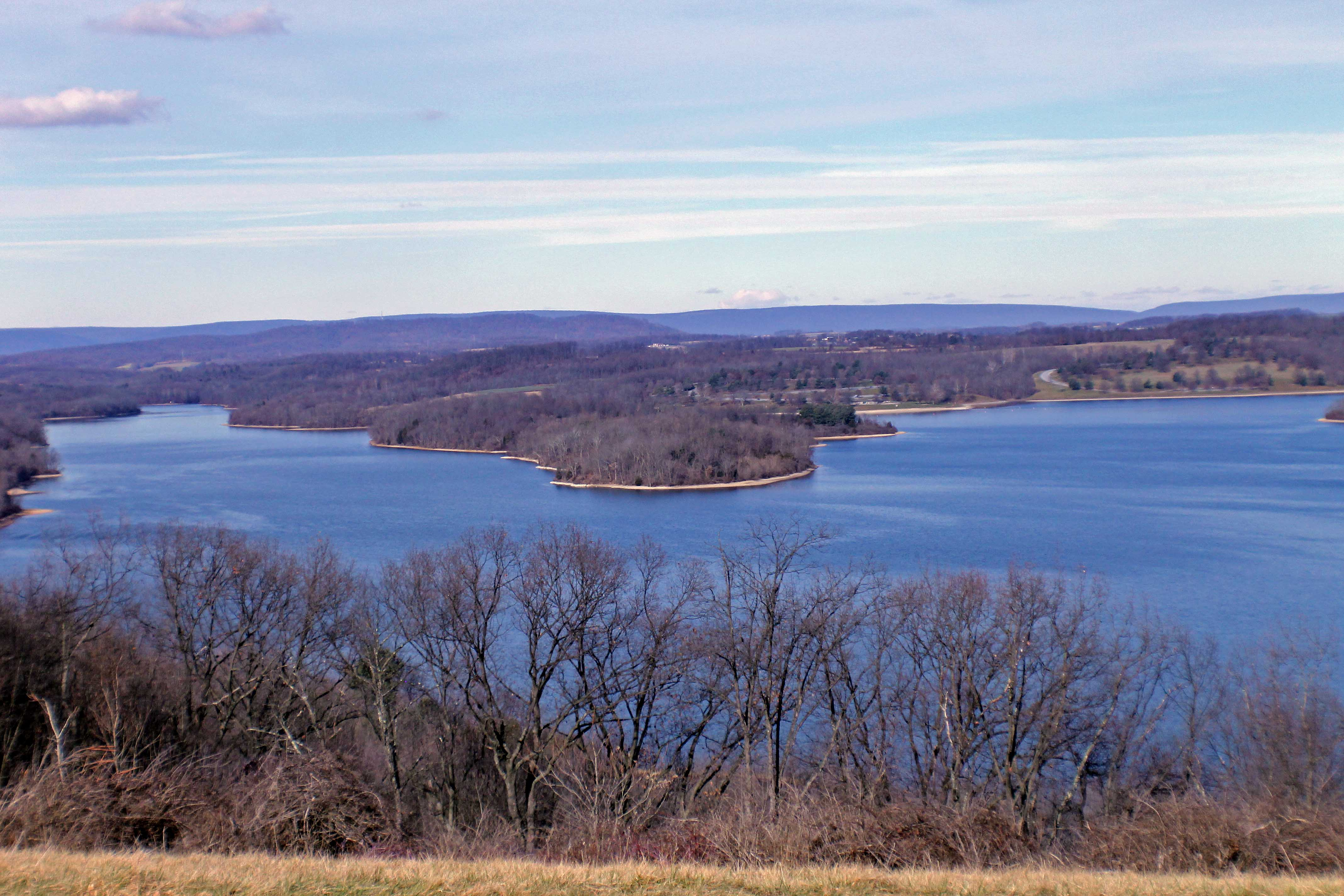 A view from the hill above the State Hill boat dock.